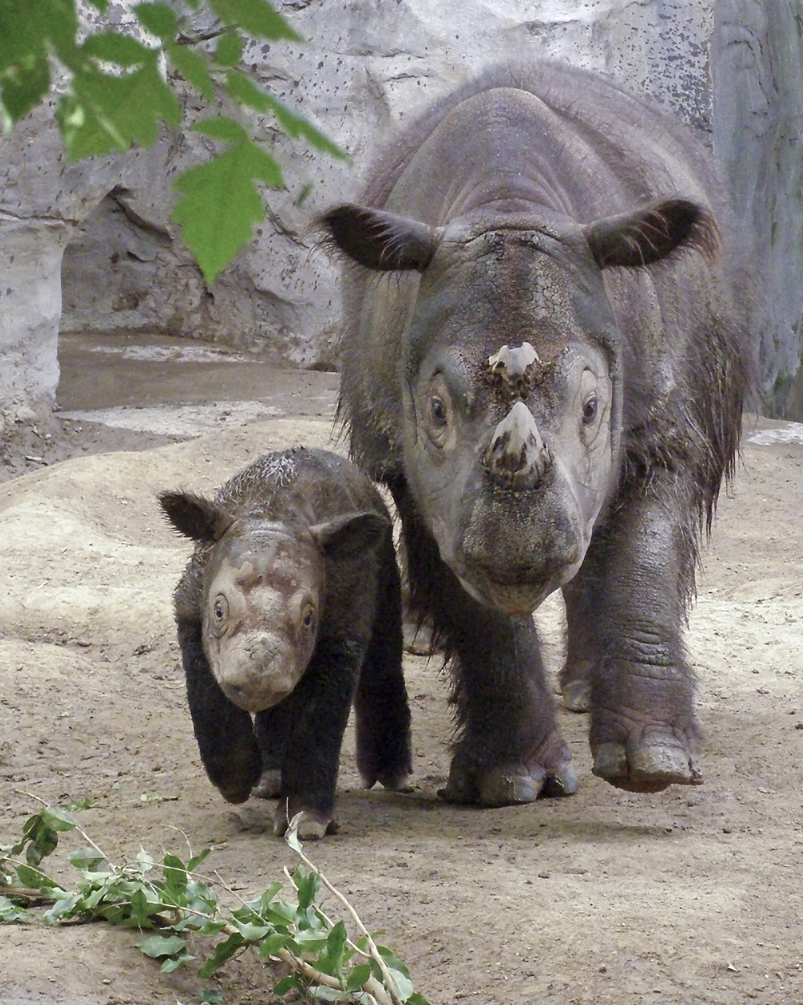 Two Sumatran Rhinos from Cincinnati Zoo & Botanical Garden. Their names pronounced "Har-ah-pahn", the Indonesian word for "Hope", "Harry" for short, is the record breaking third calf born in captivity to mother "Emi". Shown here at 19 days old and about 150 pounds, Harry was born on April 29, 2007 weighing a mere 86 pounds.